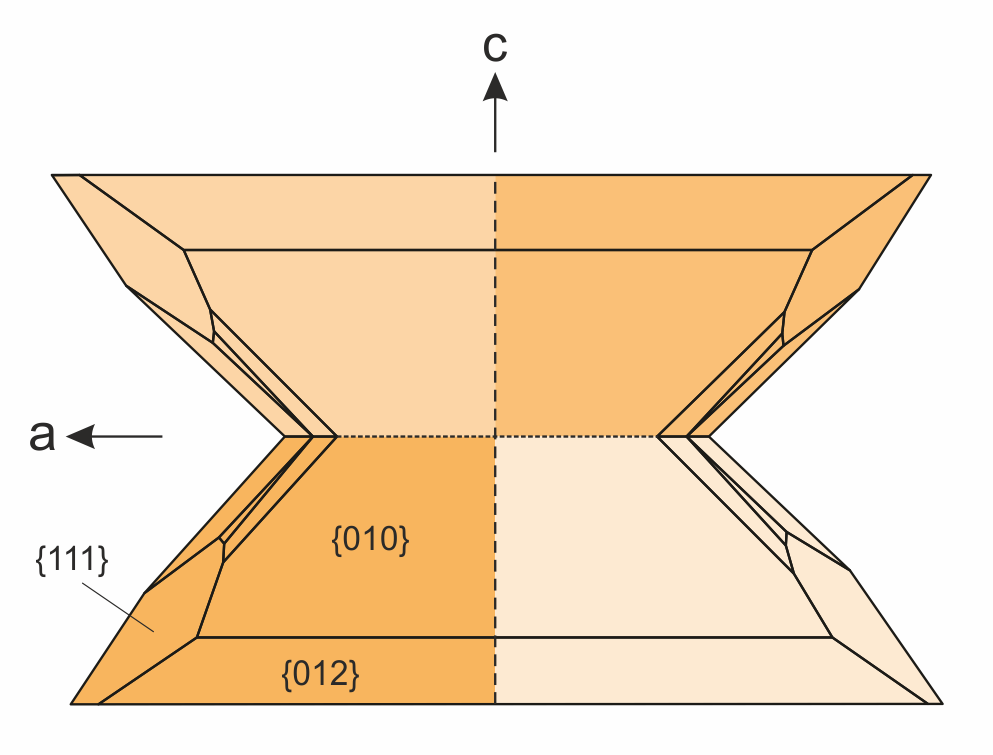 Drawing of a idealized hydroxylherderite fourling crystal; reference: P. J. Dunn et al. (1979), Mineralogical Record Vol. 10, page 9